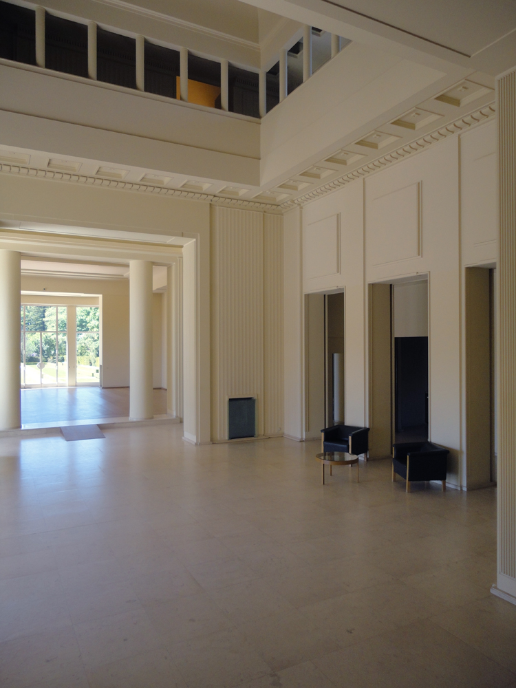 Casa de Serralves, Oporto